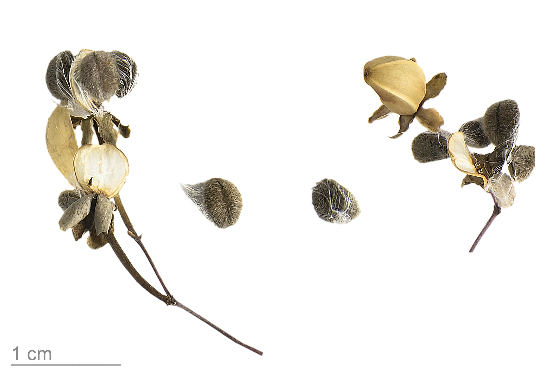 Ipomoea tenuipes, seeds